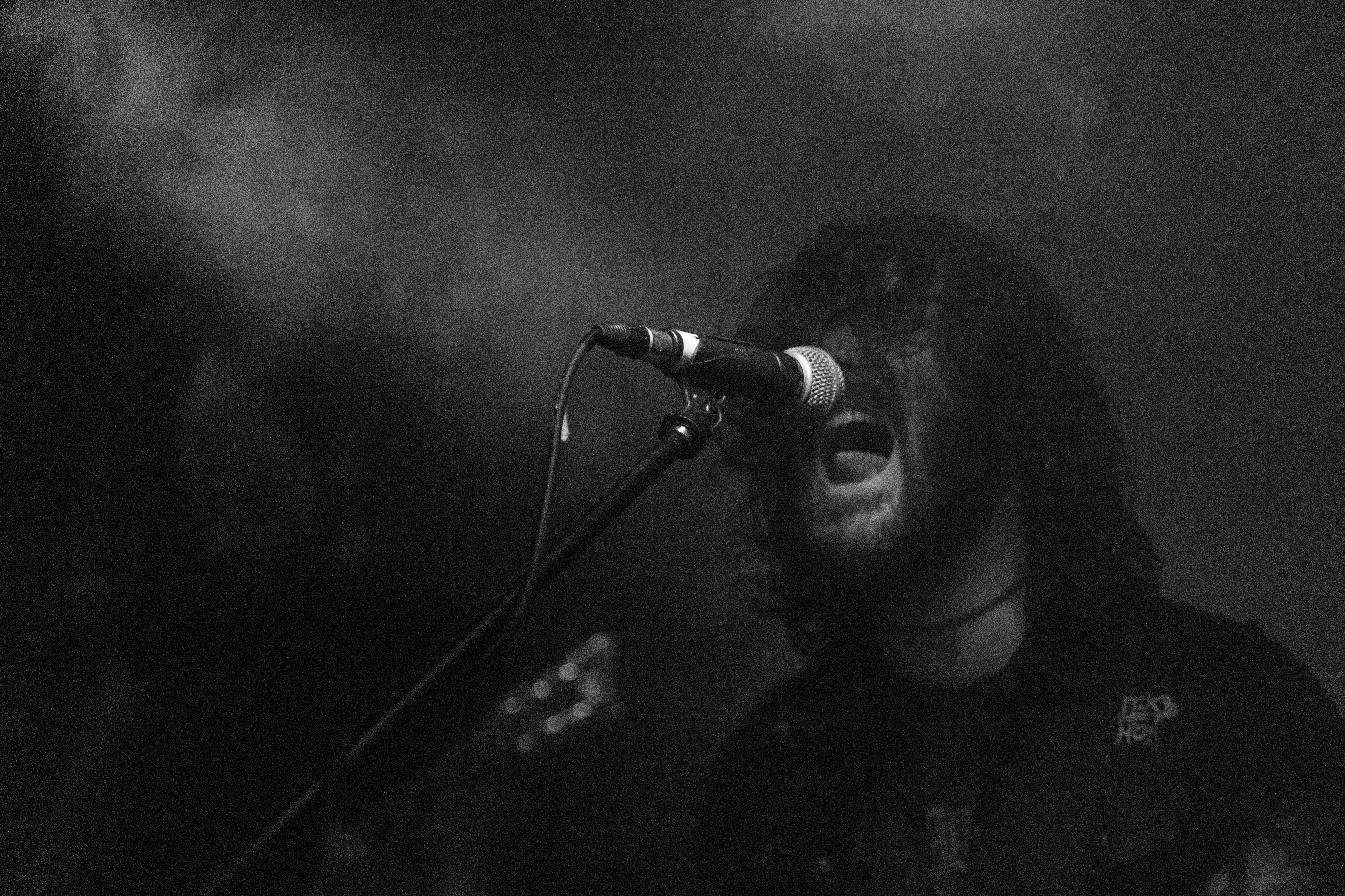 Downfall of Gaia performing at Roadburn Festival, april 2015